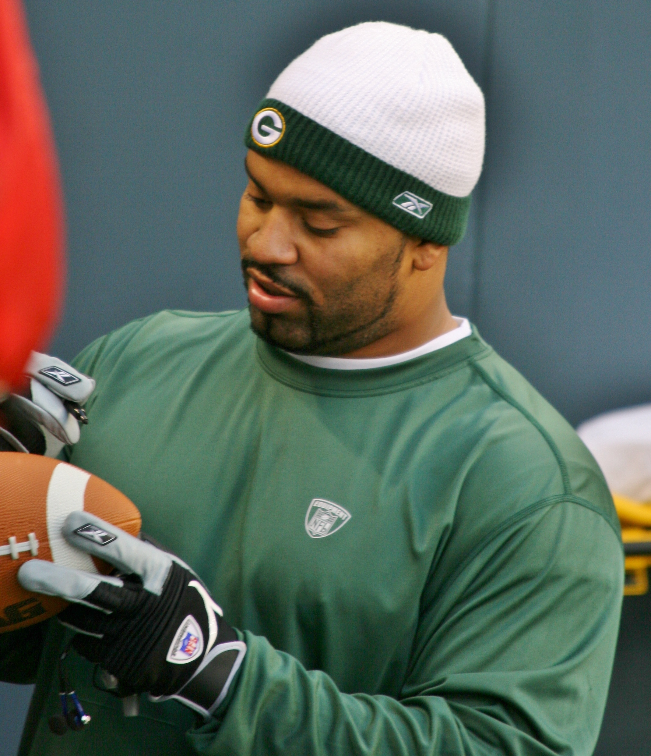 Green Bay Packers defensive tackle Cullen Jenkins signs an autograph before a game in 2006.